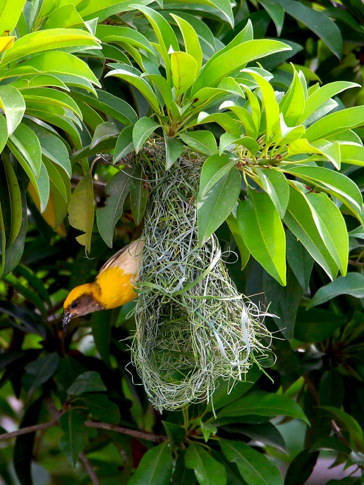 A weaver Bird in its nest at West Bengal, বাঙলা ভাষায় নাম বাবুই পাখি.